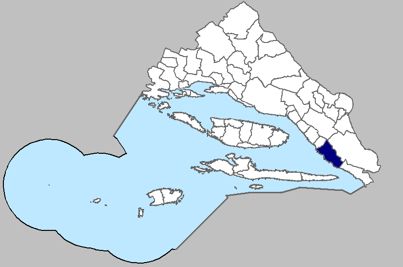 Self-made map of Podgora municipality within the Split County.